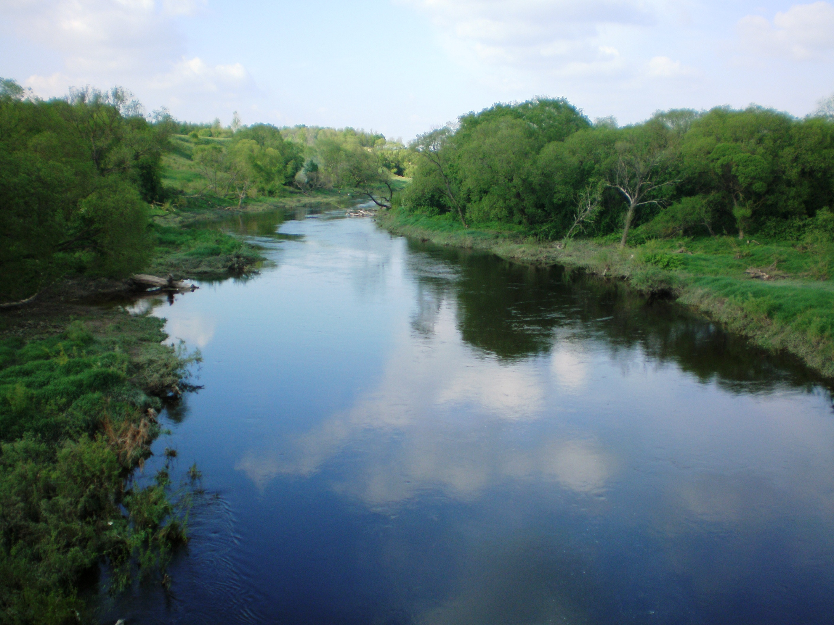 River Nevėžis near Kėdainiai city